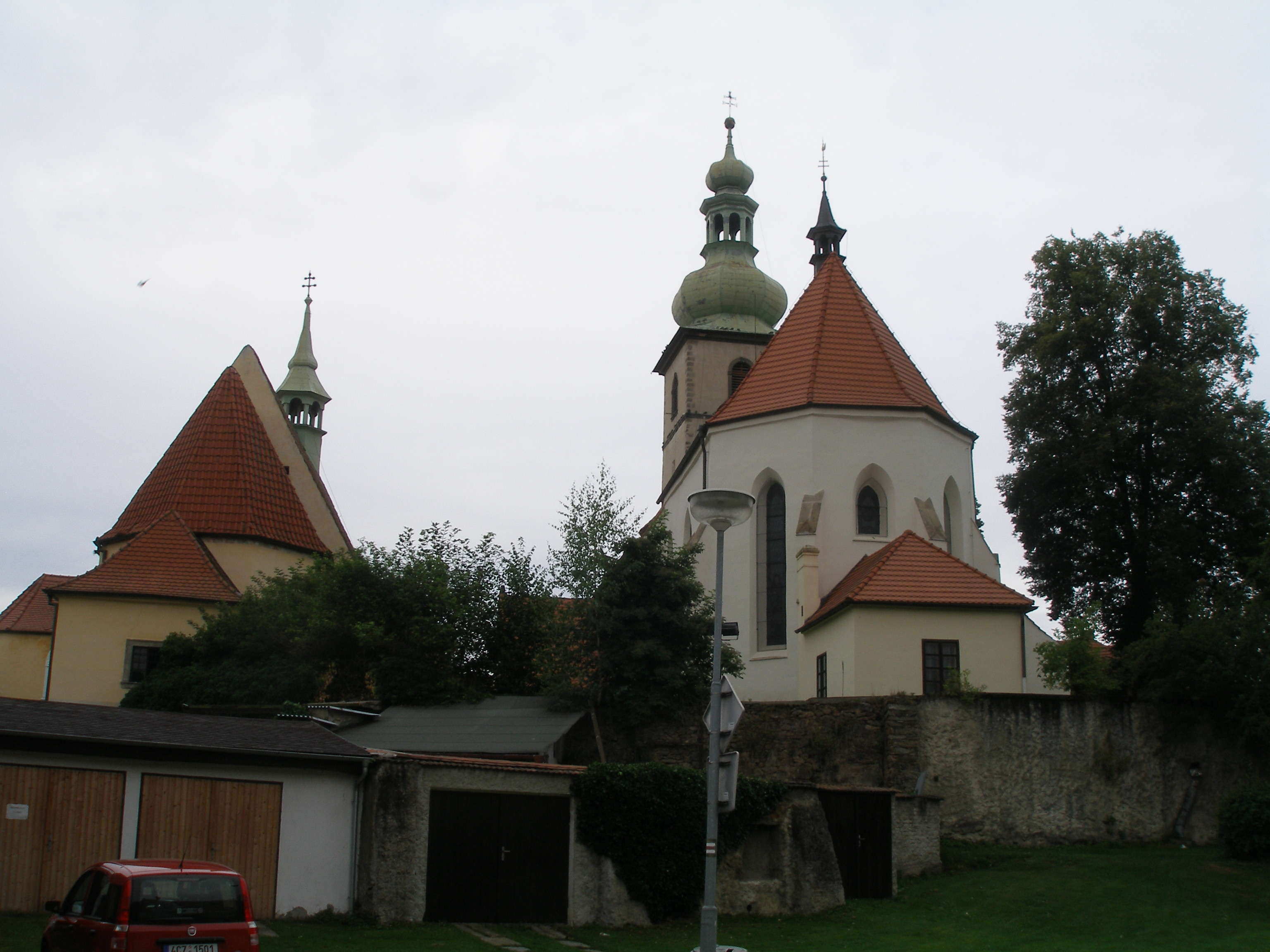 Churches of Saint Florian (left hand side) and Saint Peter and Paul (right hand side) in Kaplice